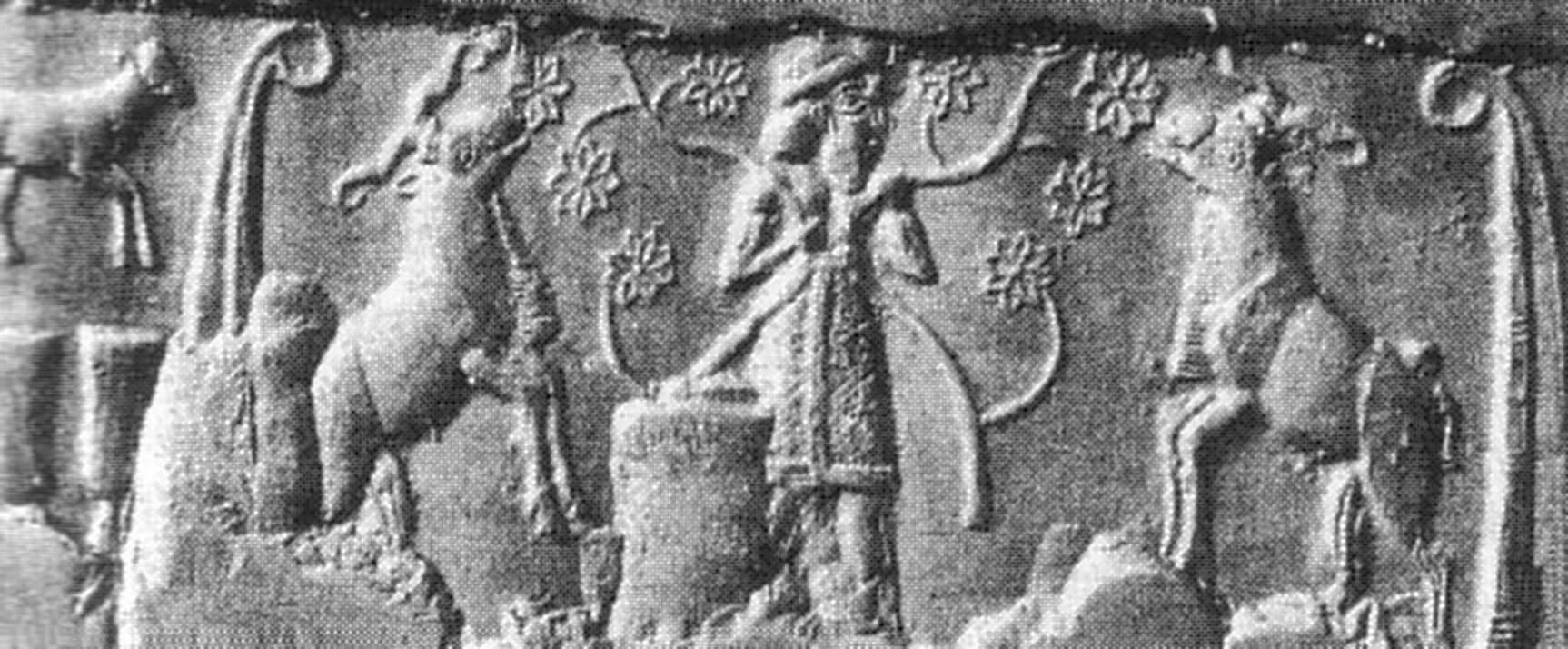 For reference: Image of Cylinder Seal VA 10537 (3/10) Vorderasiatisches Museum Berlin Priest king with two rams. Late Uruk 3300-3000 BCE (in English) (2003) Art of the First Cities: The Third Millennium B.C. from the Mediterranean to the Indus, Metropolitan Museum of Art ISBN: 9781588390431.